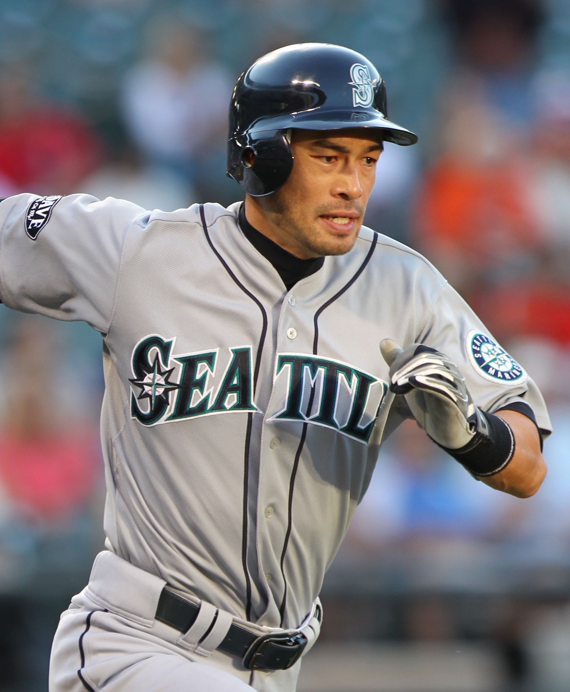 Seattle Mariners right fielder Ichiro Suzuki (51) in action during the Seattle Mariners at Baltimore Orioles game on May 11, 2011.